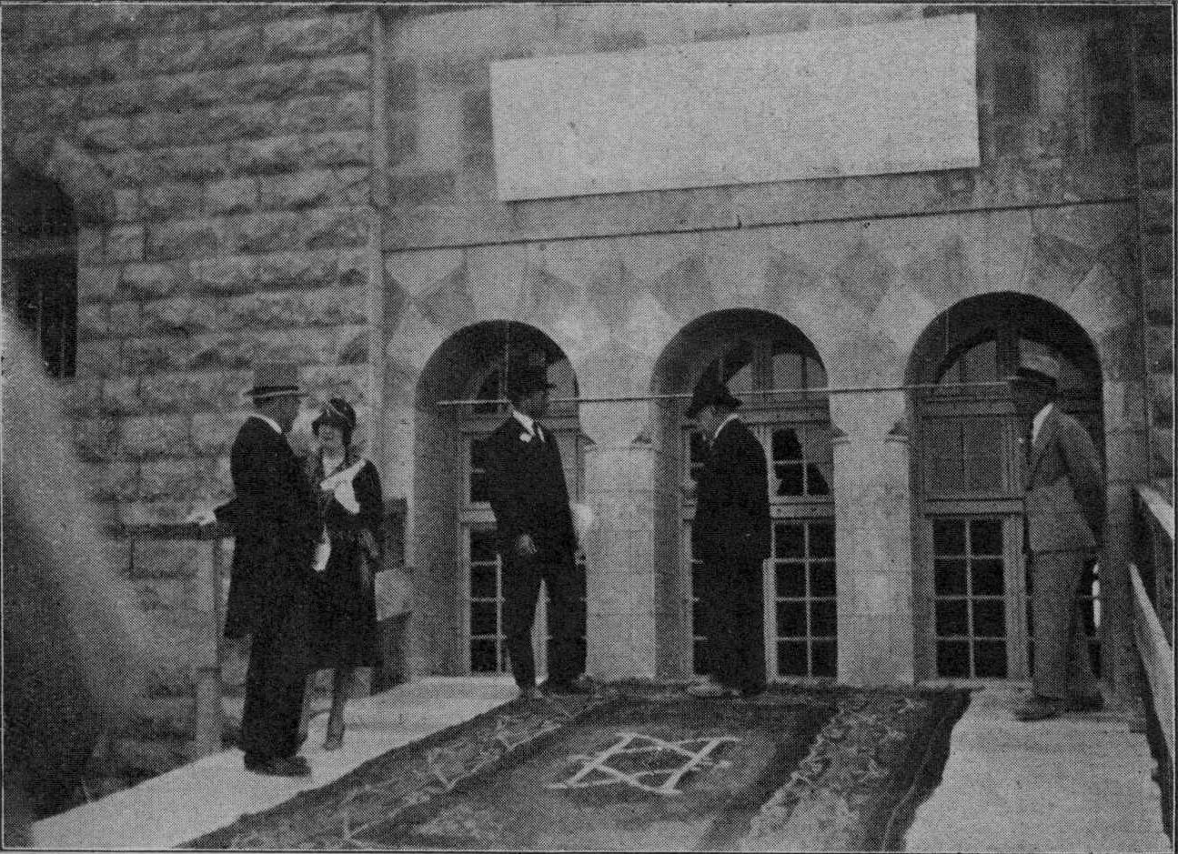 Unveiling ceremony of the Wolfson building of the National Library of Israel